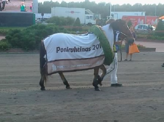 Remington IV and Raija Soini, winners of the 2013 Poniruhtinas Race in Pori, Finland.